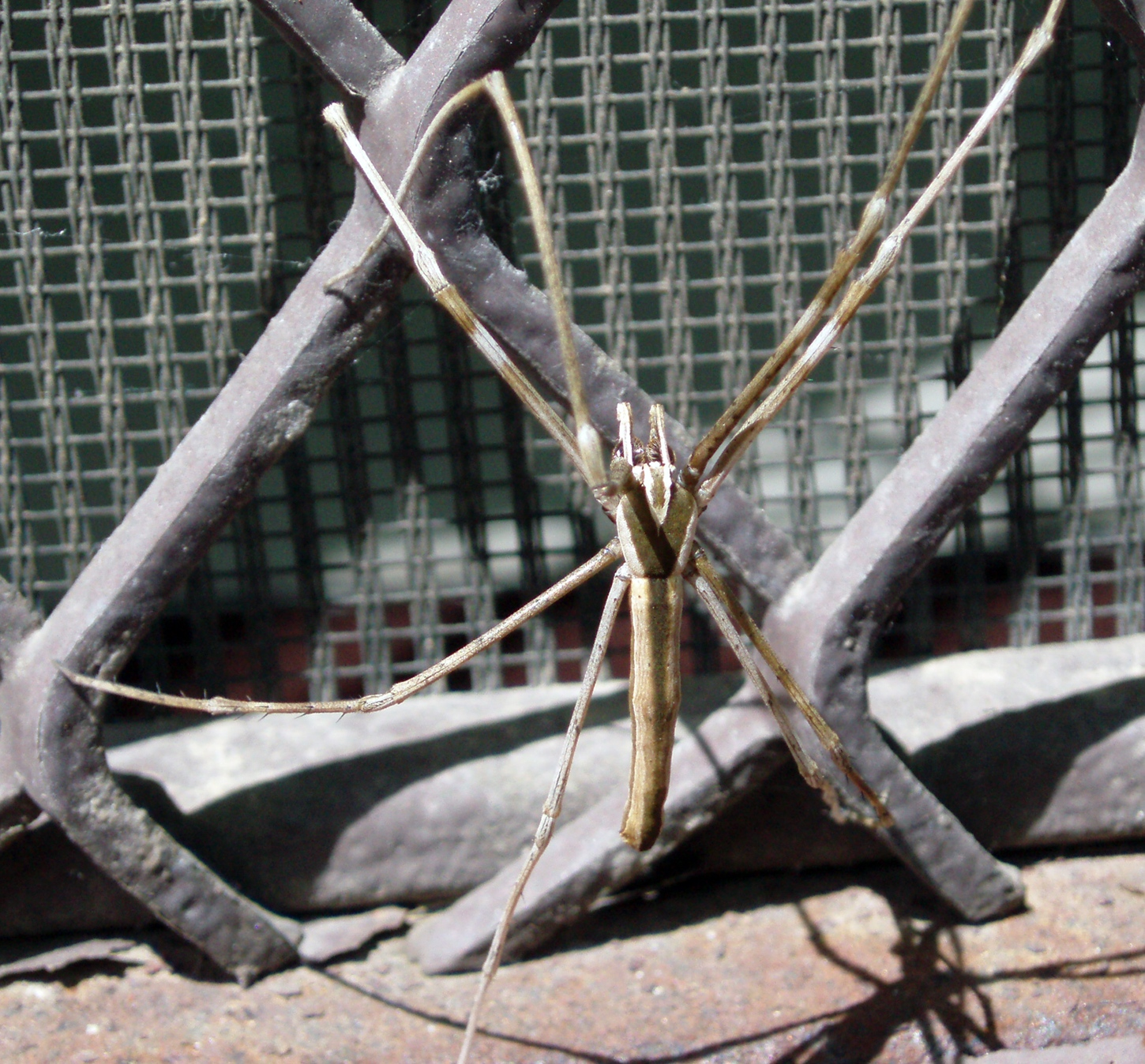 Species: Deinopis subrufa Family: Deinopidae, formerly Dinopidae Image taken & uploaded by Kboom